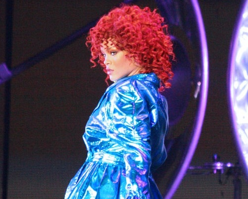 Rihanna performing in the LOUD Tour in June.